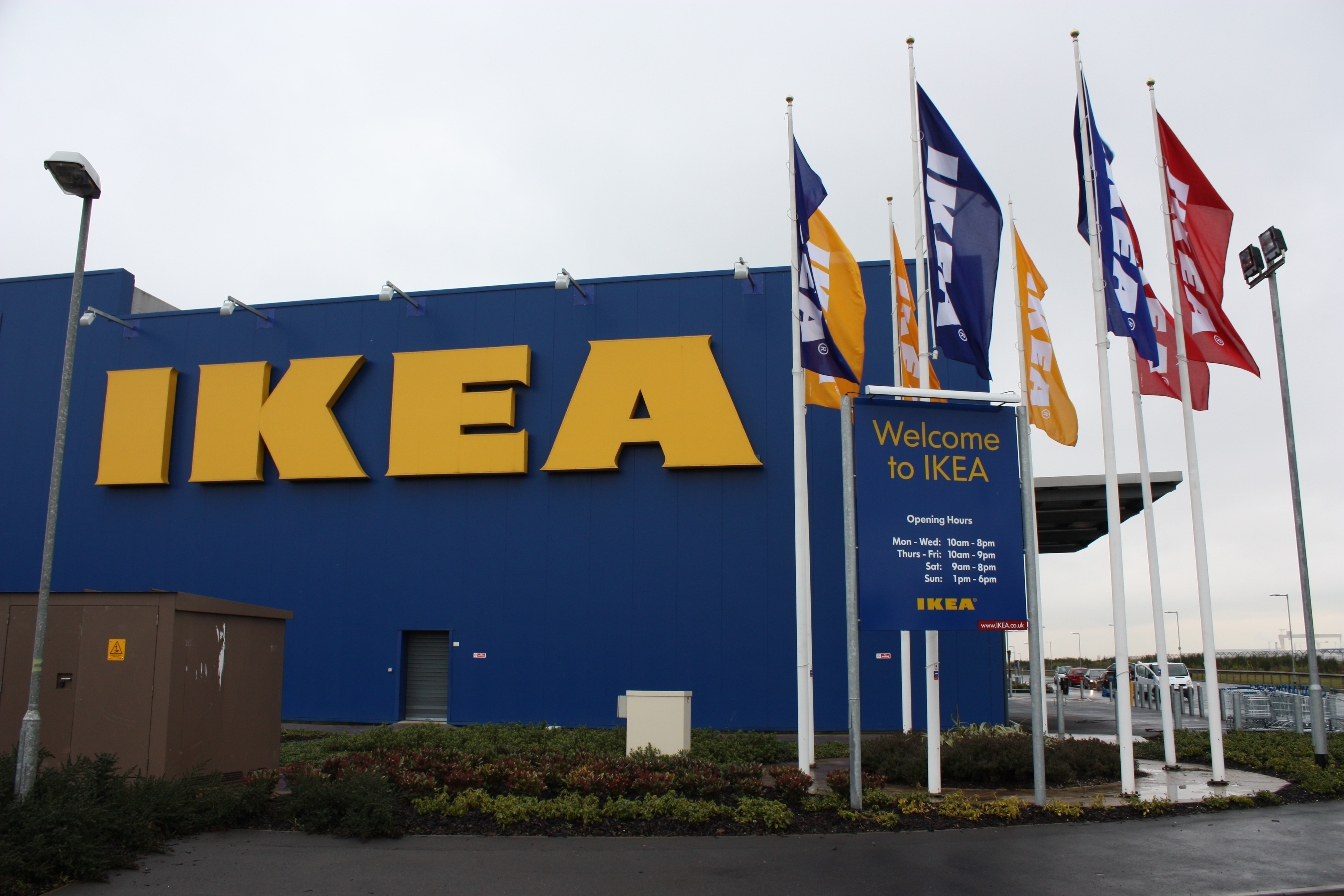 IKEA, Holywood Exchange, Airport Road West, Belfast, Northern Ireland, February 2010